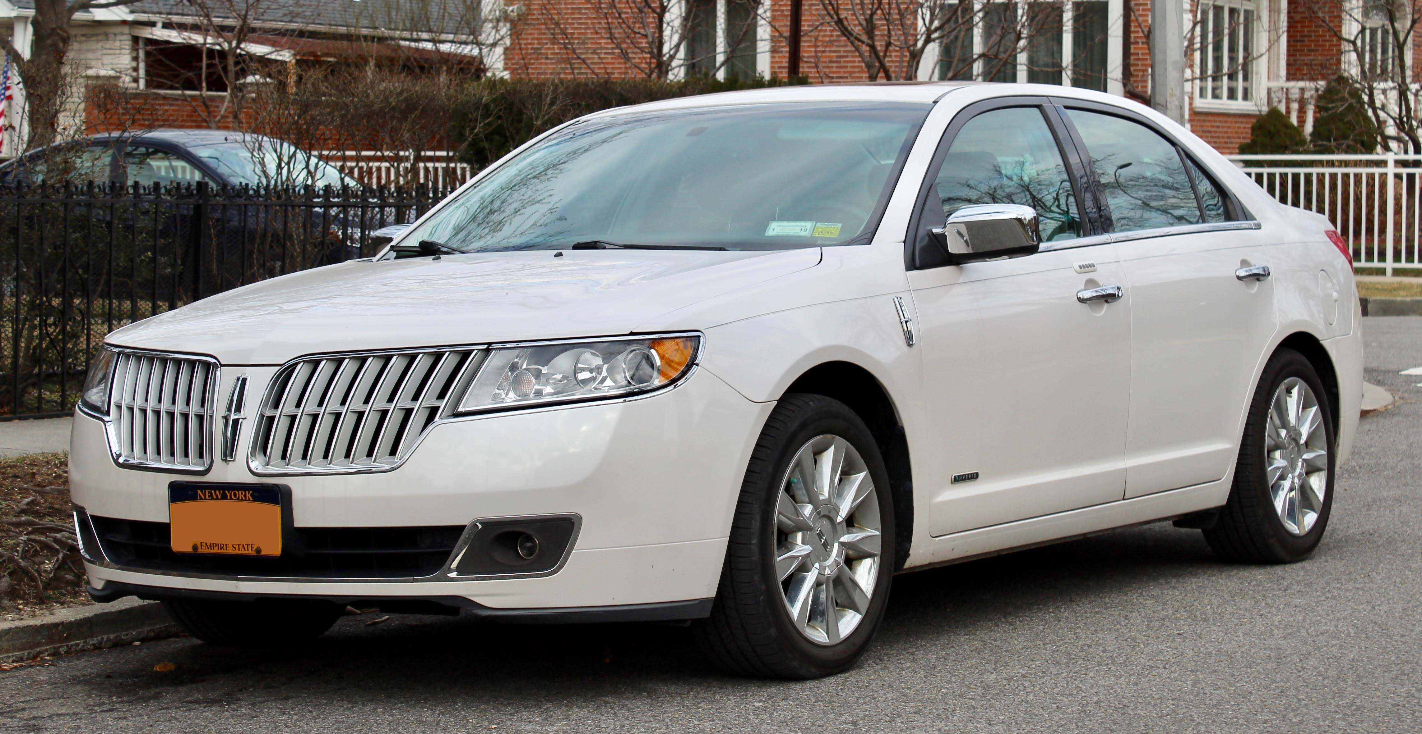 Photographed in Queens, New York, USA